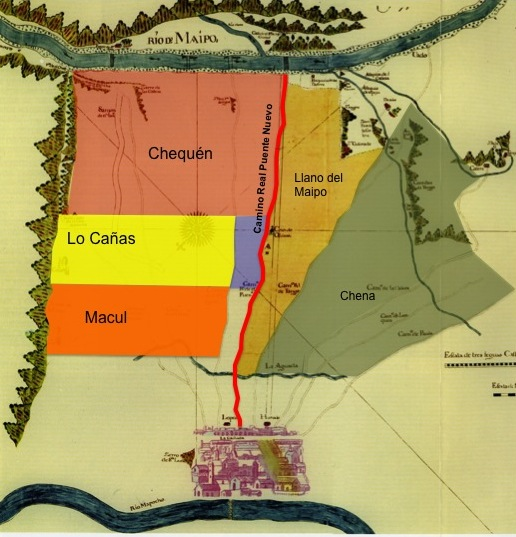 Royal Road from the Maipo River